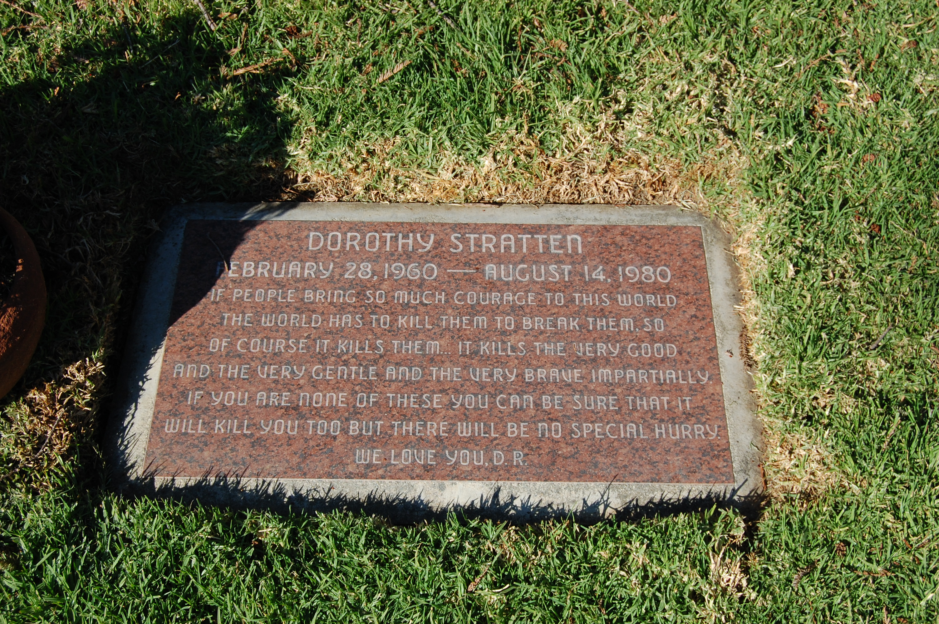 Dorothy Stratten grave at Westwood Village Memorial Park Cemetery in Brentwood, California. December 2011.